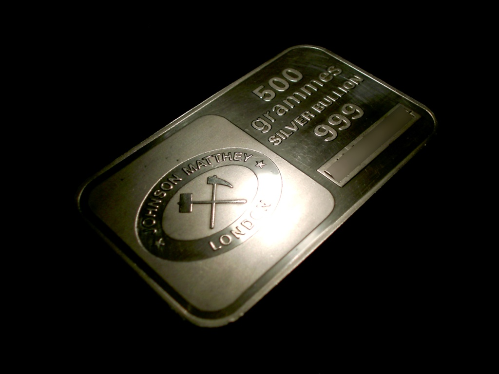 500g silver bullion bar produced by Johnson Matthey. The serial number (lower right side of bar) has been obscured. Picture taken and released into the public domain by User:Kallemax.